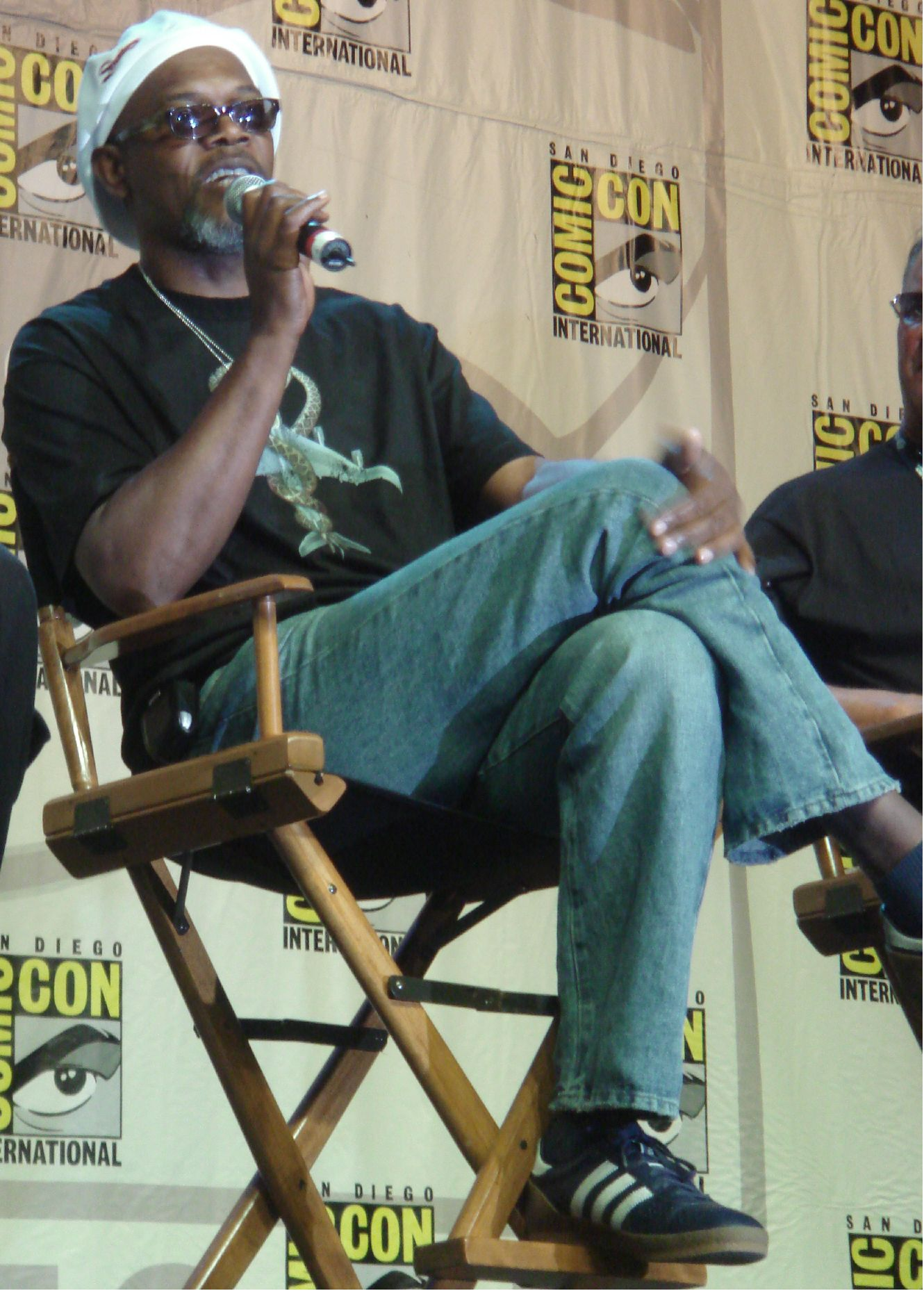 Samuel L. Jackson at the 2006 San Diego Comic-Con